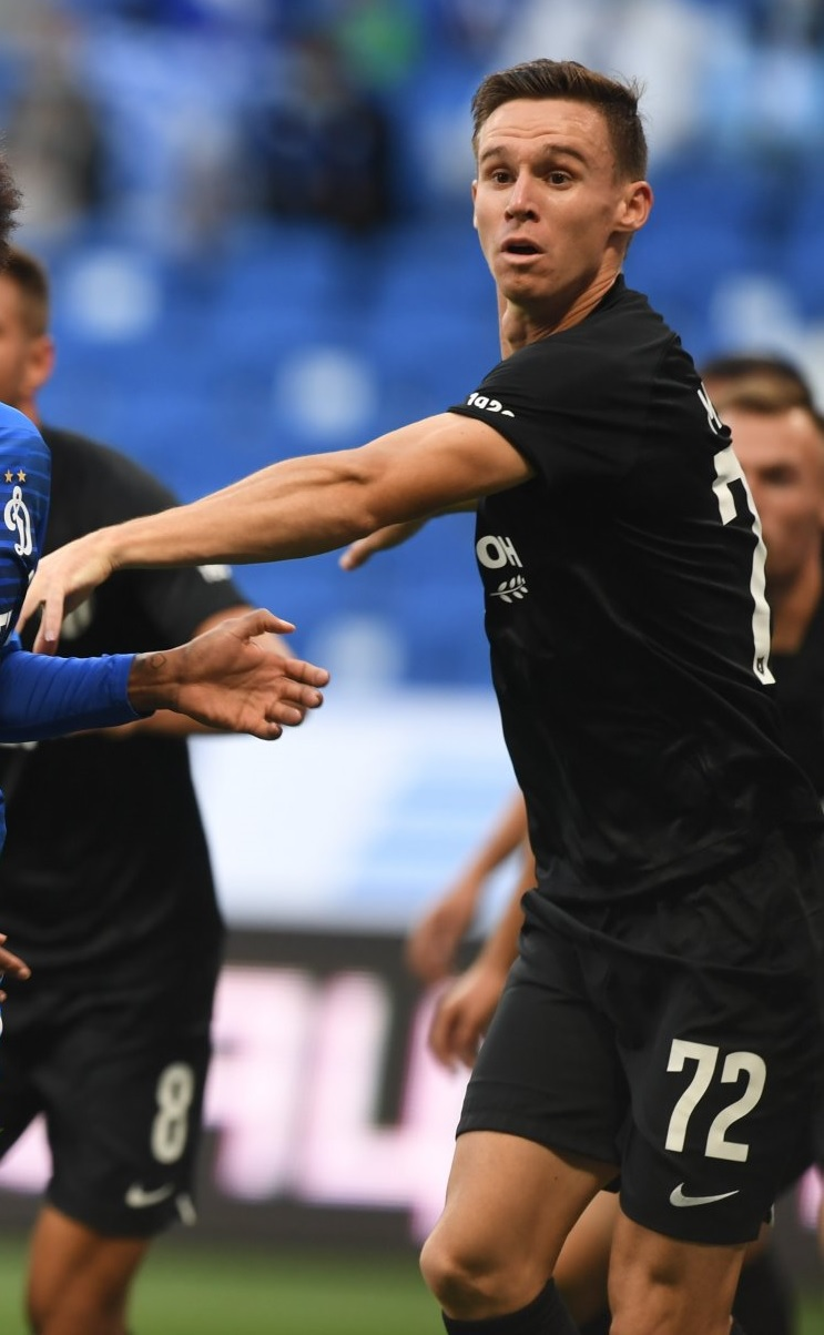 Kamil Mullin with FC Rotor Volgograd in a game against FC Dynamo Moscow.